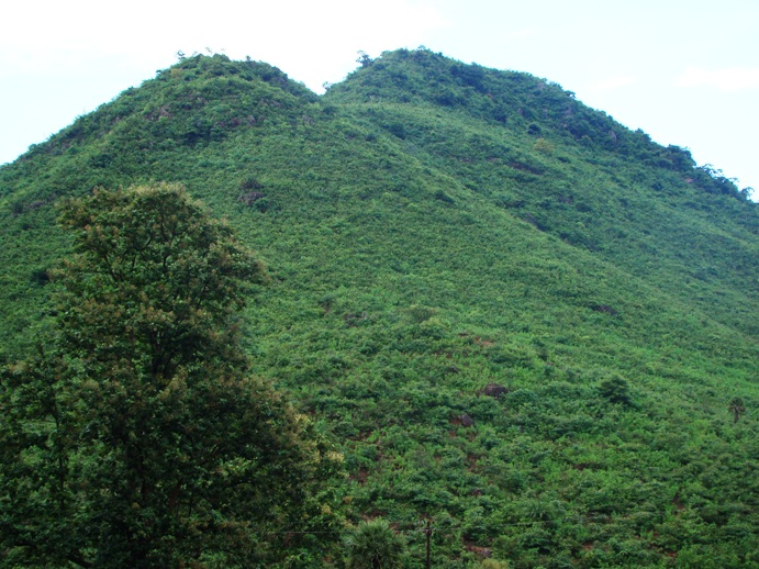 College Hill